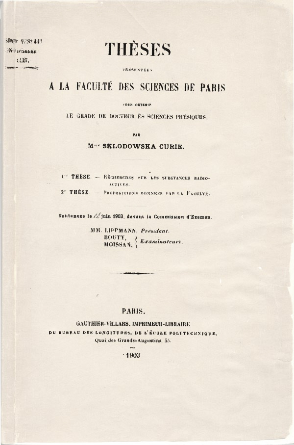 Marie Curie: Recherches sur les substances radioactives. 1903